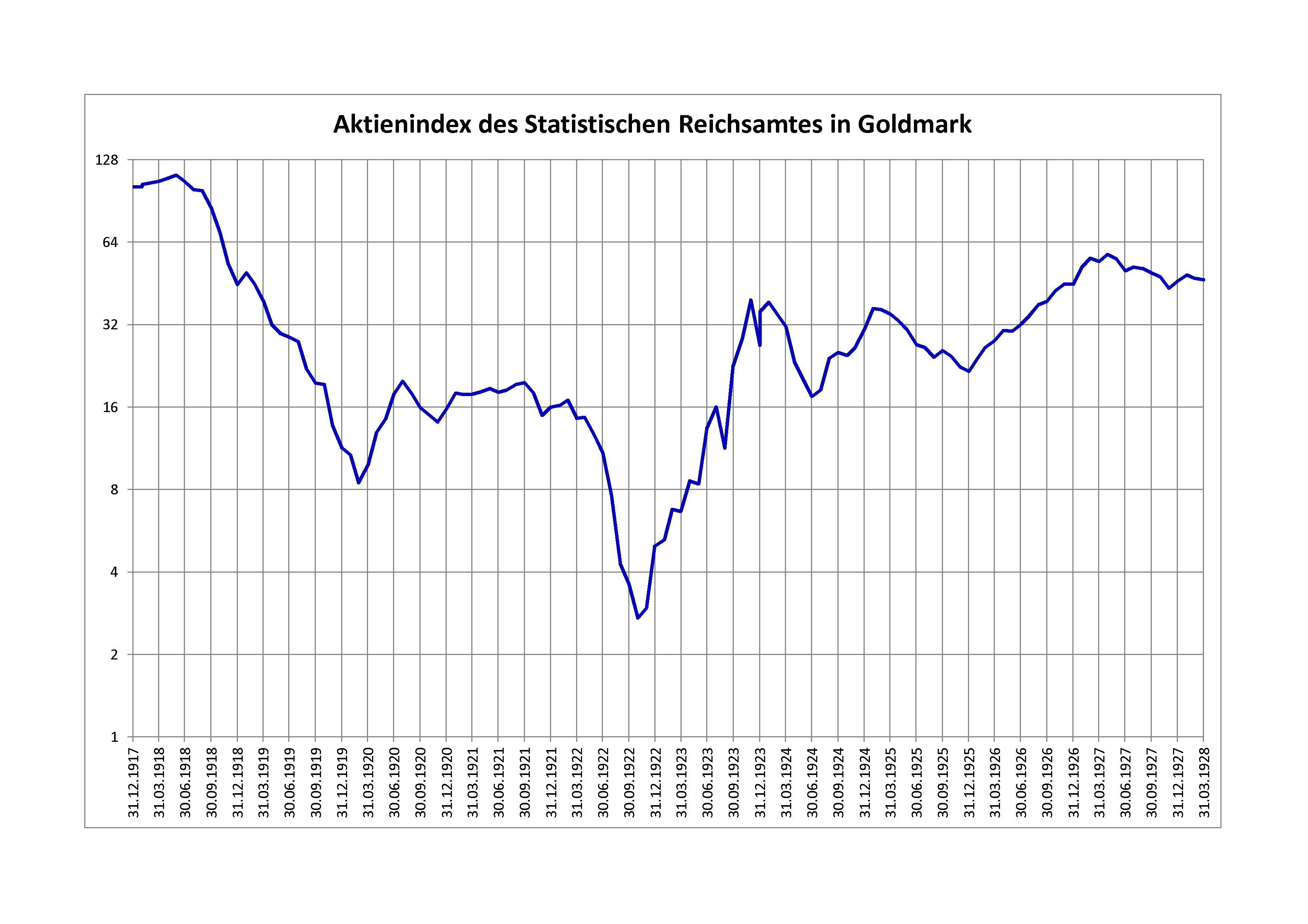 Stock market index of the Statistisches Reichsamt (Statistical Office) from January 1918 to March 1928 (monthly average prices)